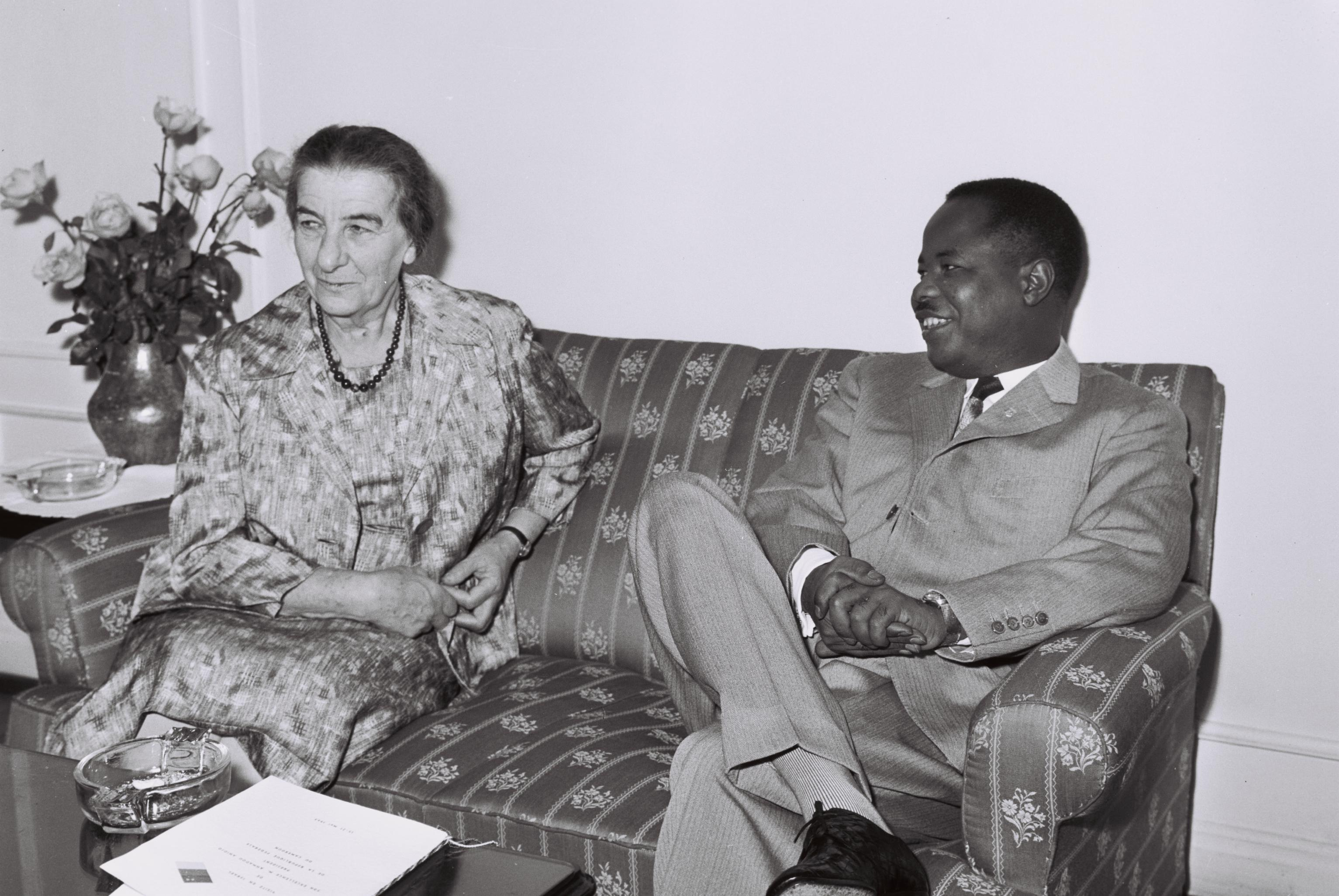 Ahmadou Ahidjo president of Cameroun meeting with foreign minister Golda Meir, at the King David Hotel, Jerusalem.